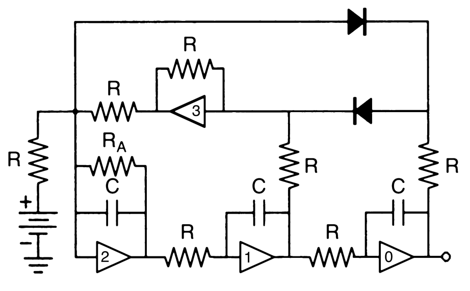 Example of a jerk circuit. All resistors and capacitors are of equal size except RA=0.6 R.